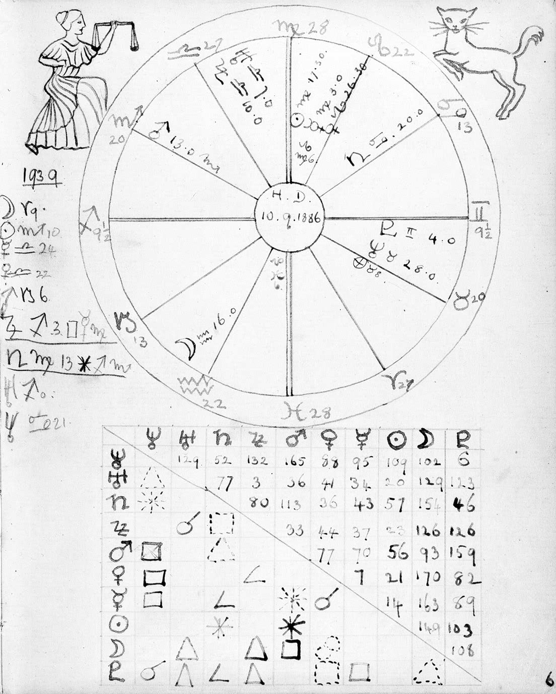 Hand-drawn horoscope saved from the Yale Collection of American Literature, Beinecke Rare Book and Manuscript Library. The original's black edges were losslessly cropped using jpegcrop.